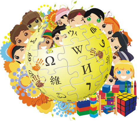 Wikipedia Children's Day